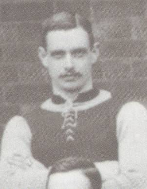 Jimmy Crabtree cropped from the Aston Villa team photo of 1897. Image believed to be in the public domain due to age